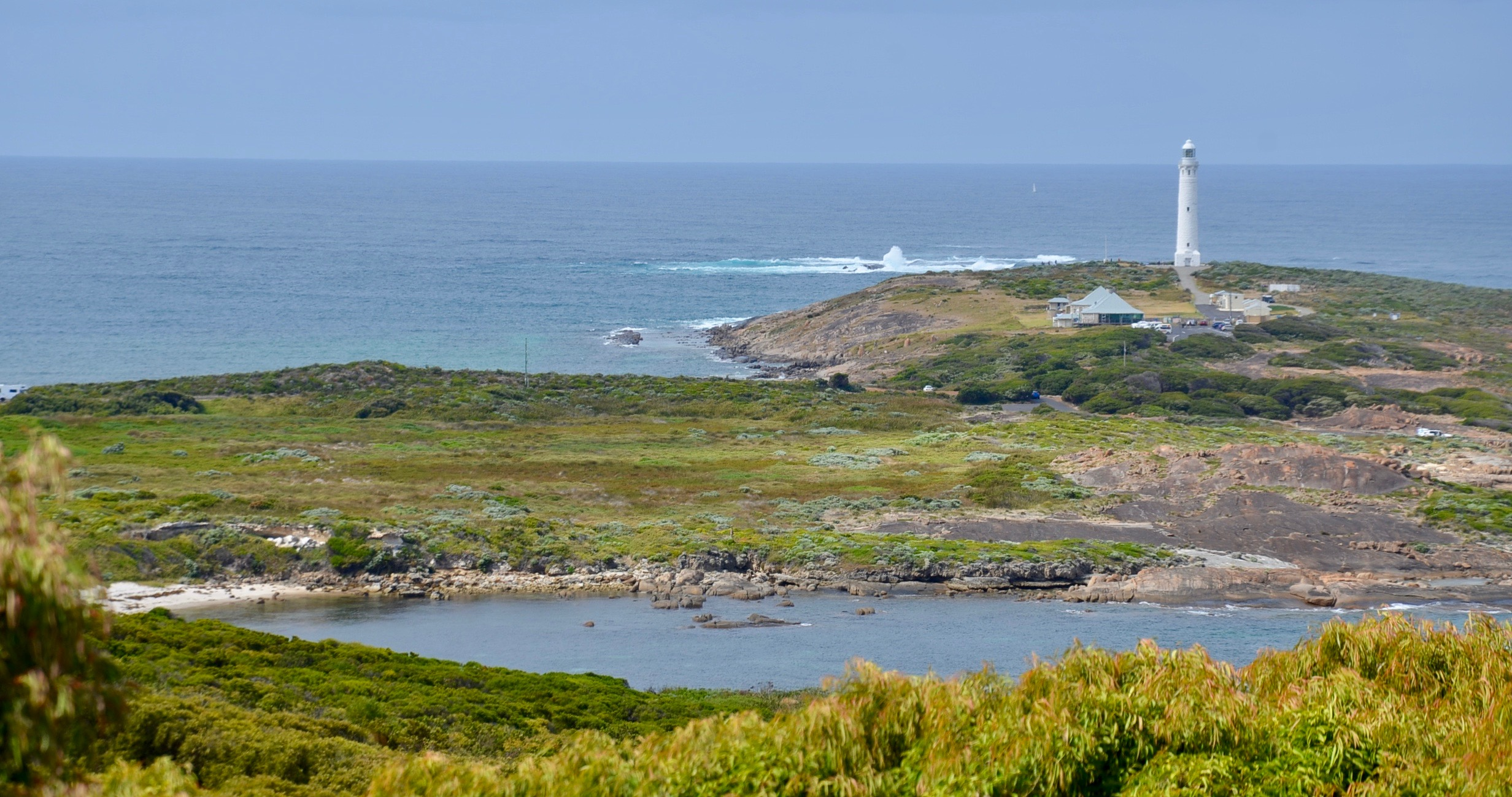 w: Cape Leeuwin, Western Australia